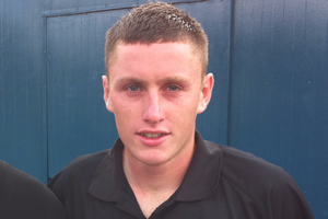 Photo taken by myself following a friendly match between Tamworth and Rotherham United.